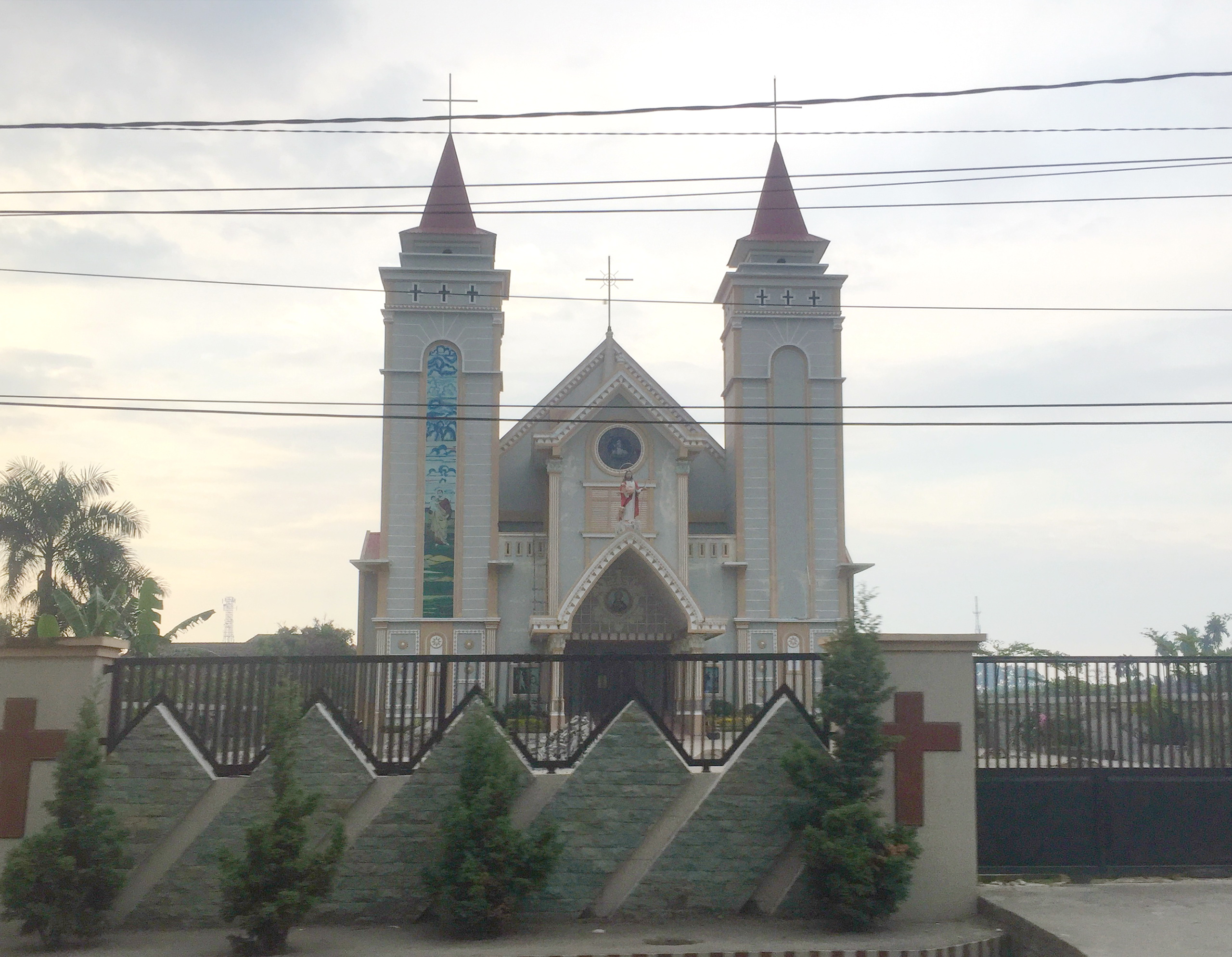 Gembala yang Baik Catholic Church in Lubuk Pakam, Deli Serdang